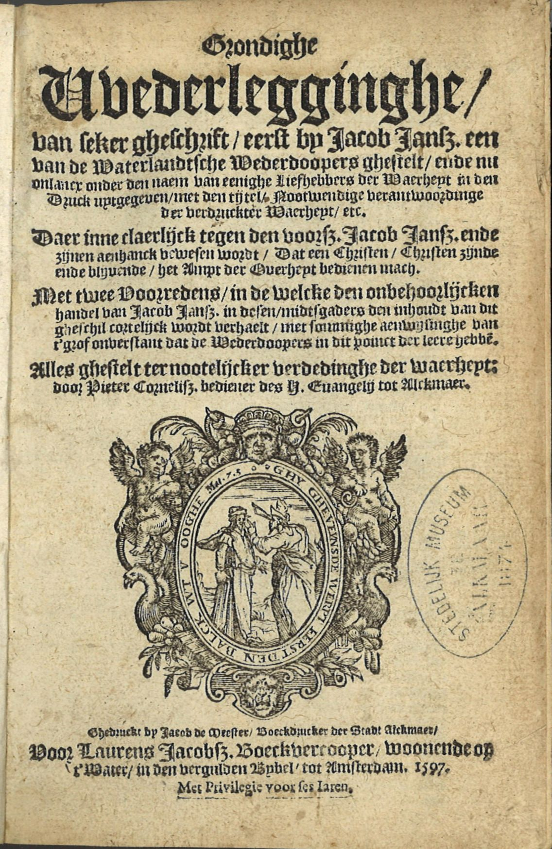 Title page